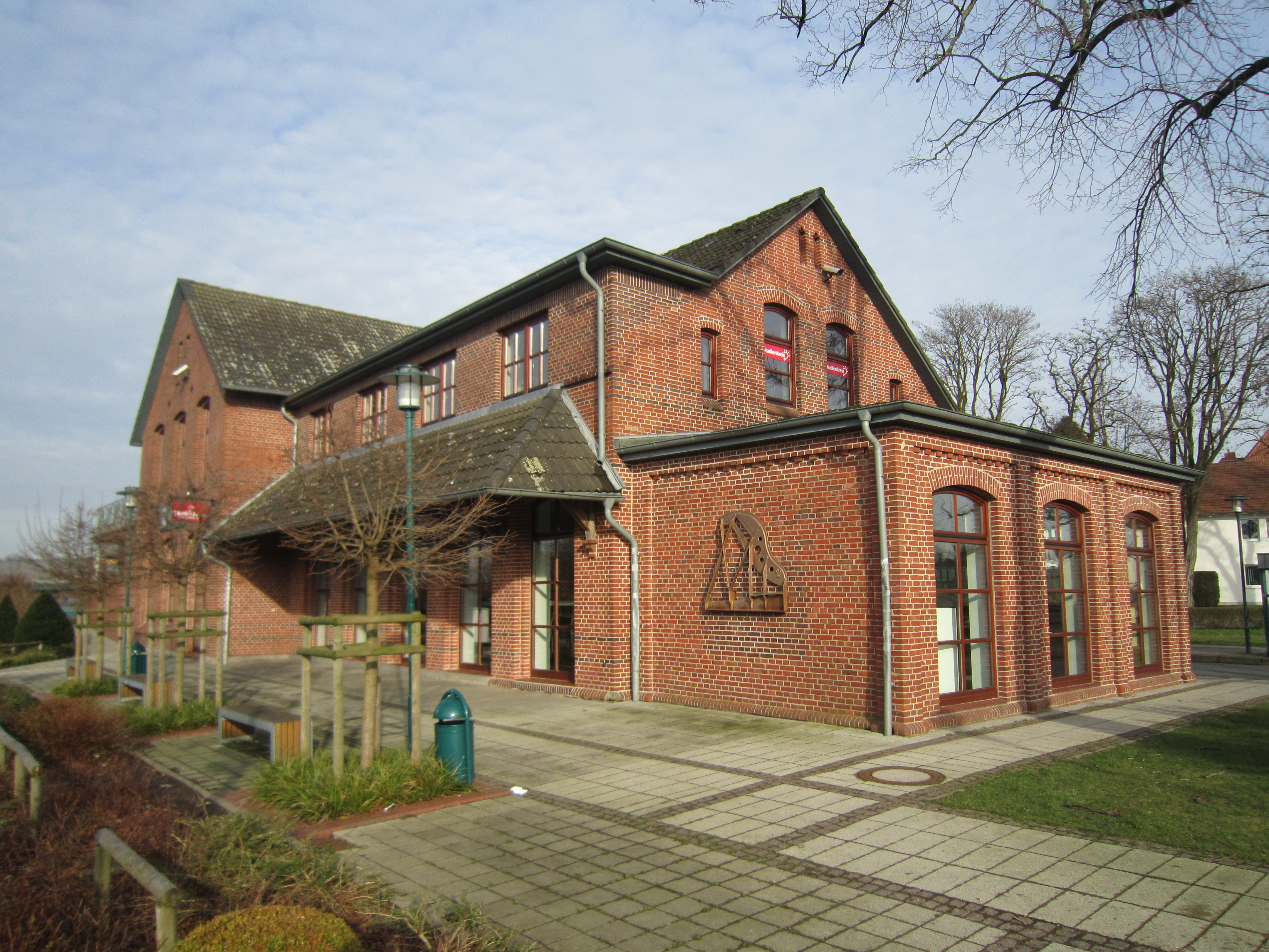 Lohne train station